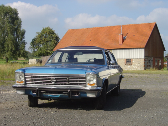 Opel Diplomat B V8 1976